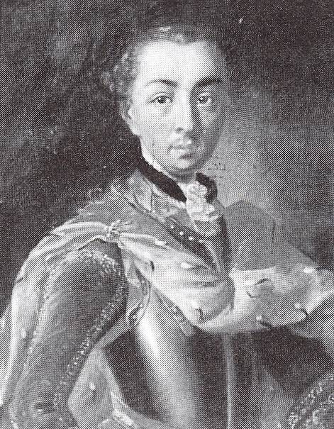 Fürst Ludwig Carl Franz Leopold zu Hohenlohe-Waldenburg-Bartenstein (1731-1799)